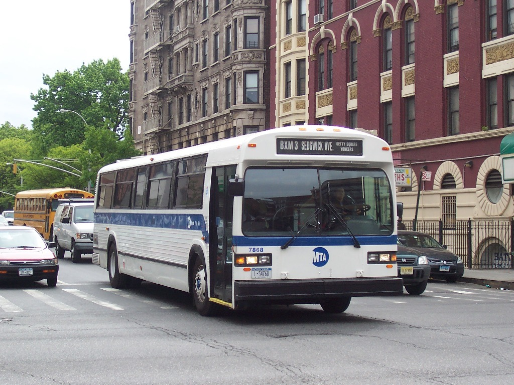 MTA Bus Company MCI Classic #7868 (ex-Liberty Lines 3050) works the BxM3 line in Manhattan en route to Yonkers.